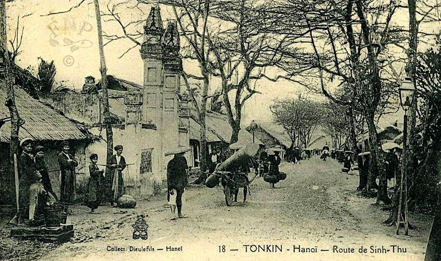 gdgdfg